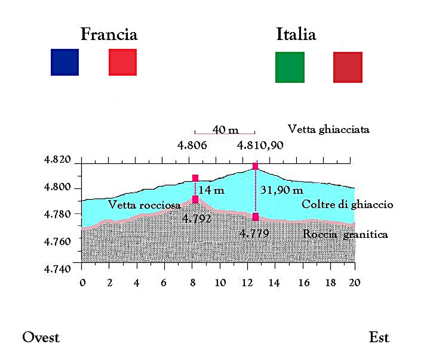 Border on the icecap of the Mont Blanc